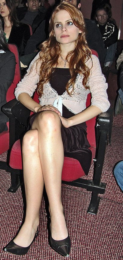 Brazilian actress Marisol Ribeiro.